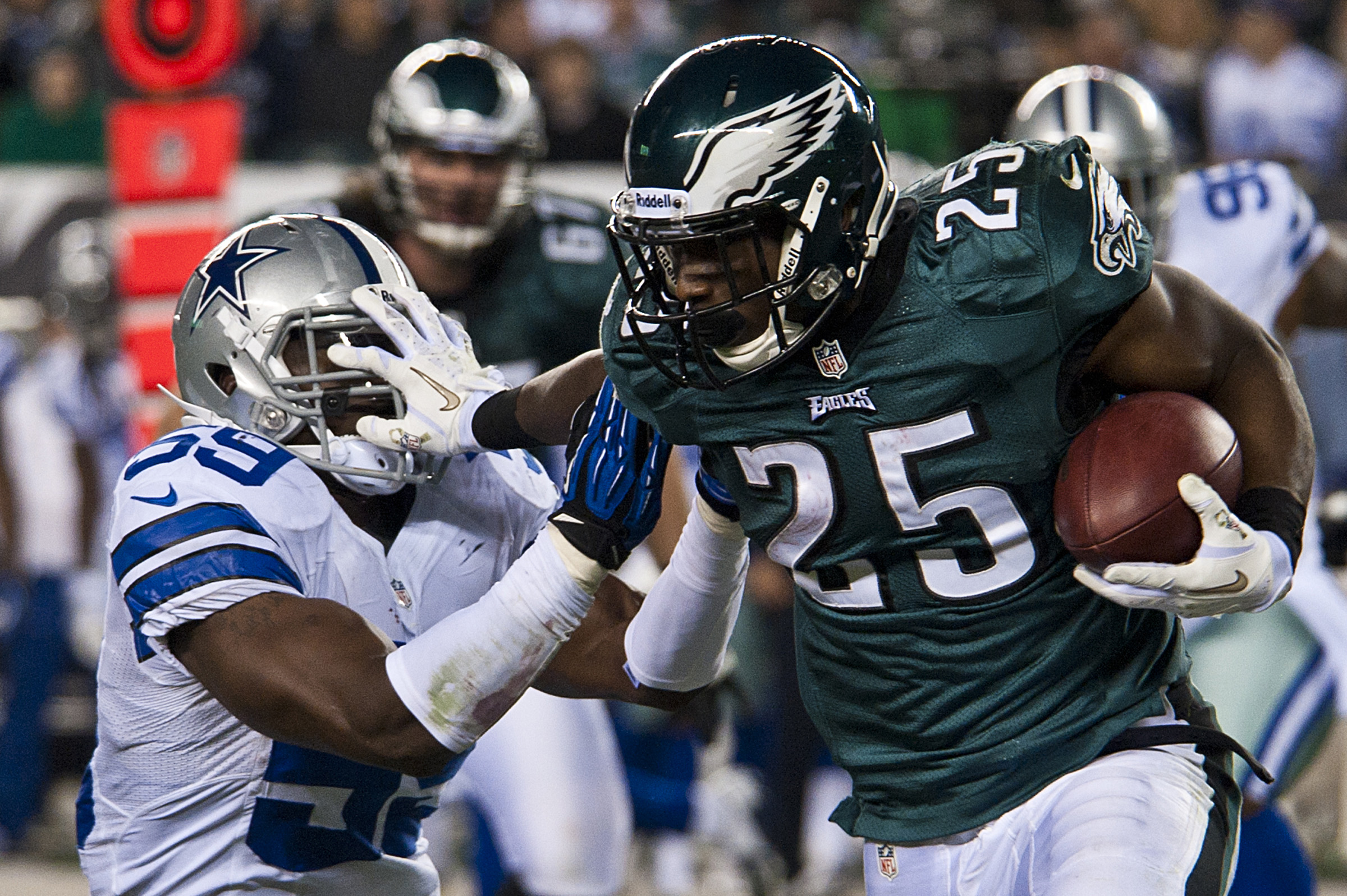 LeSean McCoy, Eagles running back, stiff arms Ernie Sims, Dallas Cowboys linebacker, as he runs the ball at Lincoln Financial Field in Philadelphia Nov. 11. The Marine Corps Silent Drill Platoon performed for at the Eagles' halftime show for tens of thousands of spectators this Veteran's Day to the chanting of "U.S.A! U.S.A!"